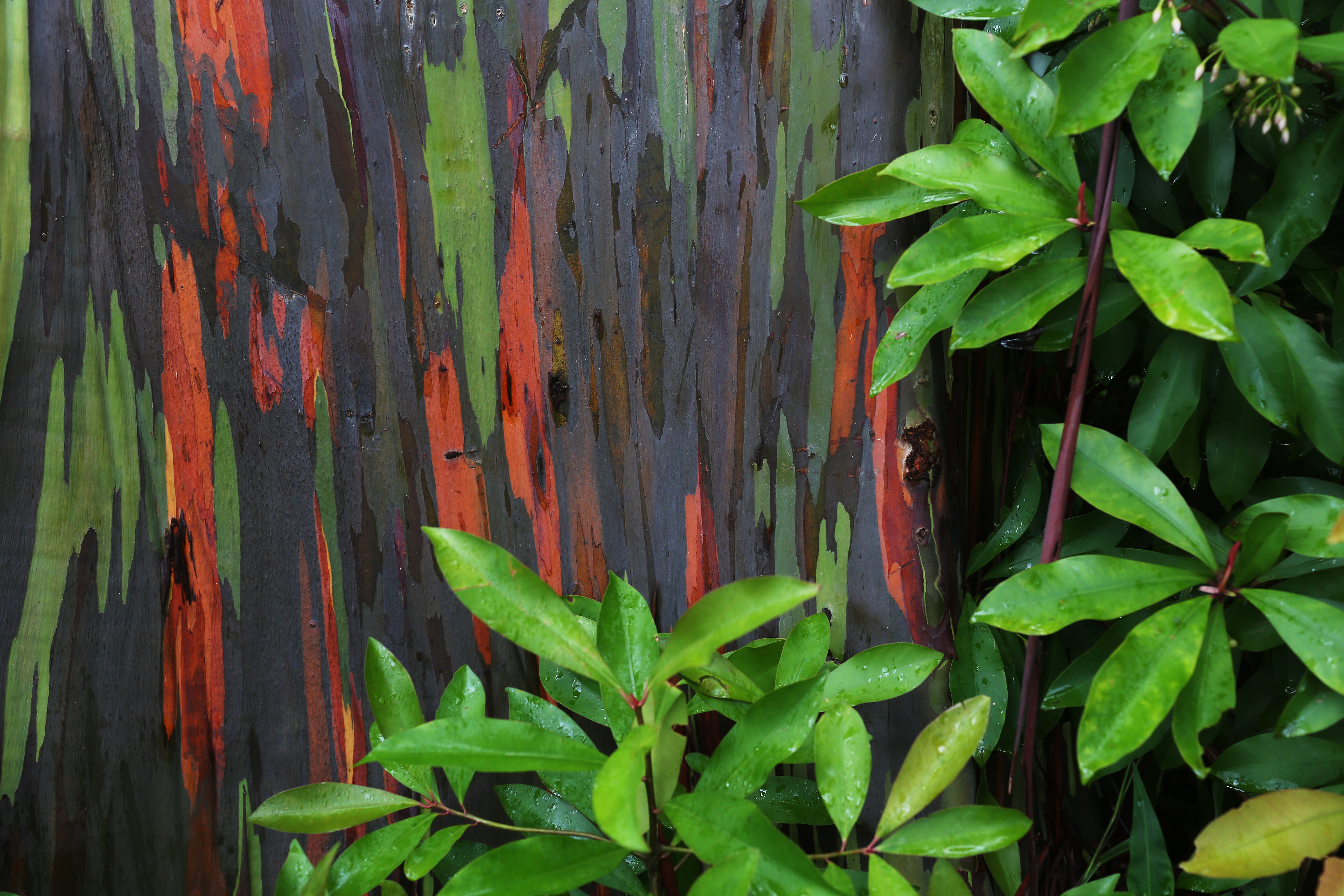 The colorful bark of Eucalyptus deglupta, widely known as "Rainbow Eucalyptus," on Maui's Road to Hana.